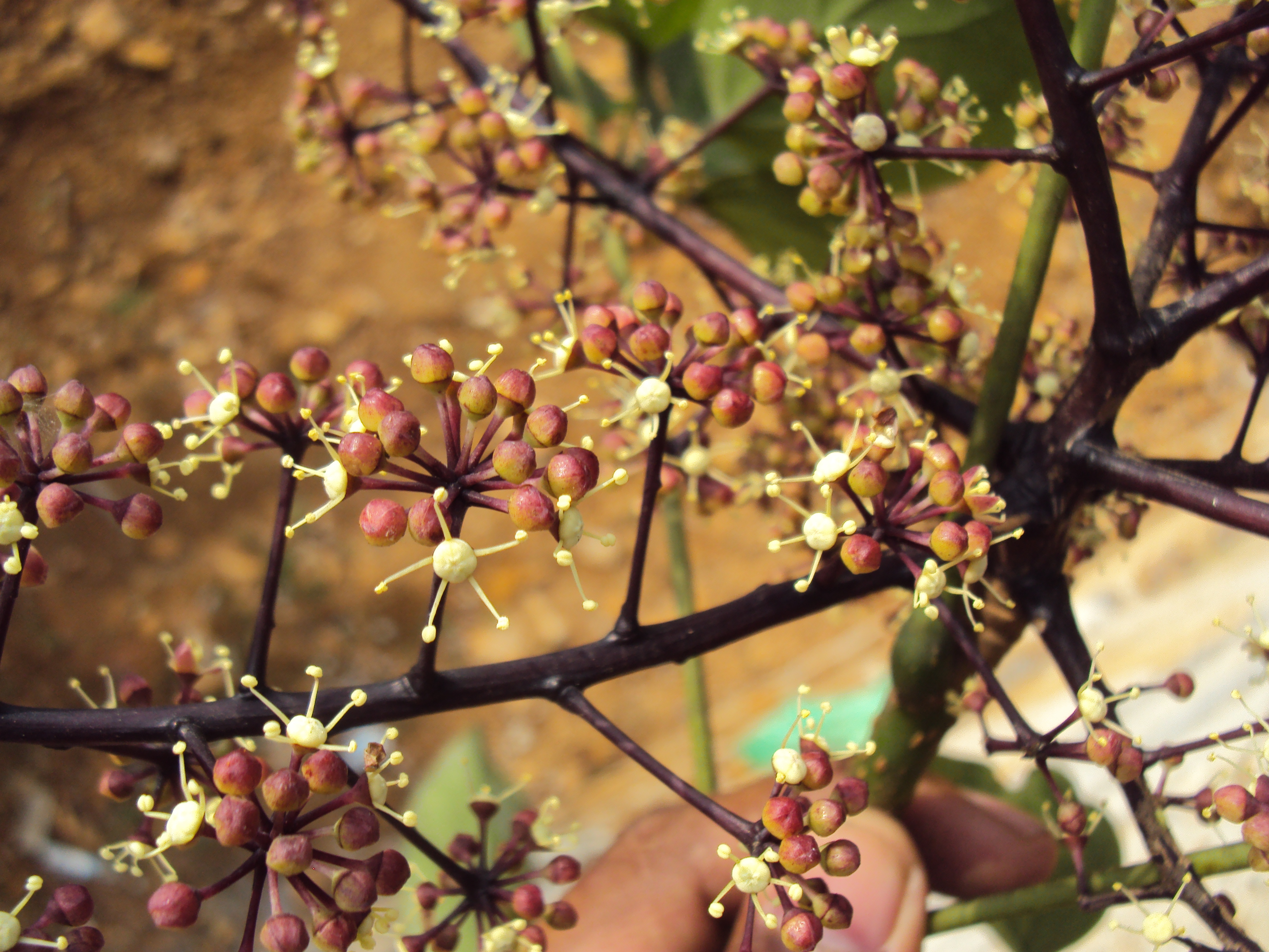 Schefflera venulosa